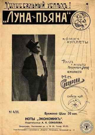 "Le Roi de Excentrique" - russian poet, composer, chansonnier Mikhail Savoiarov